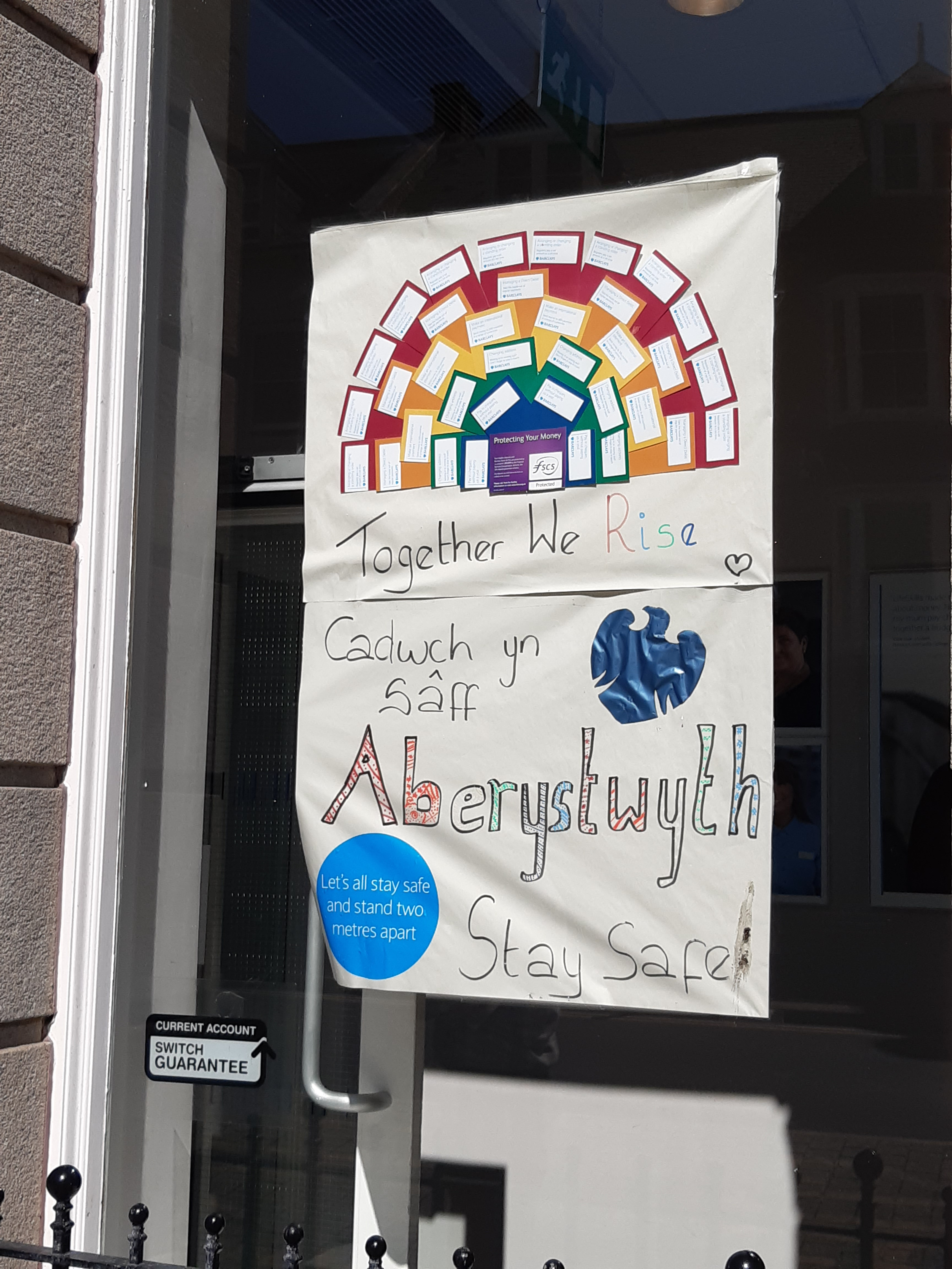 COVID-19 sign on Barclays Banc Aberystwyth